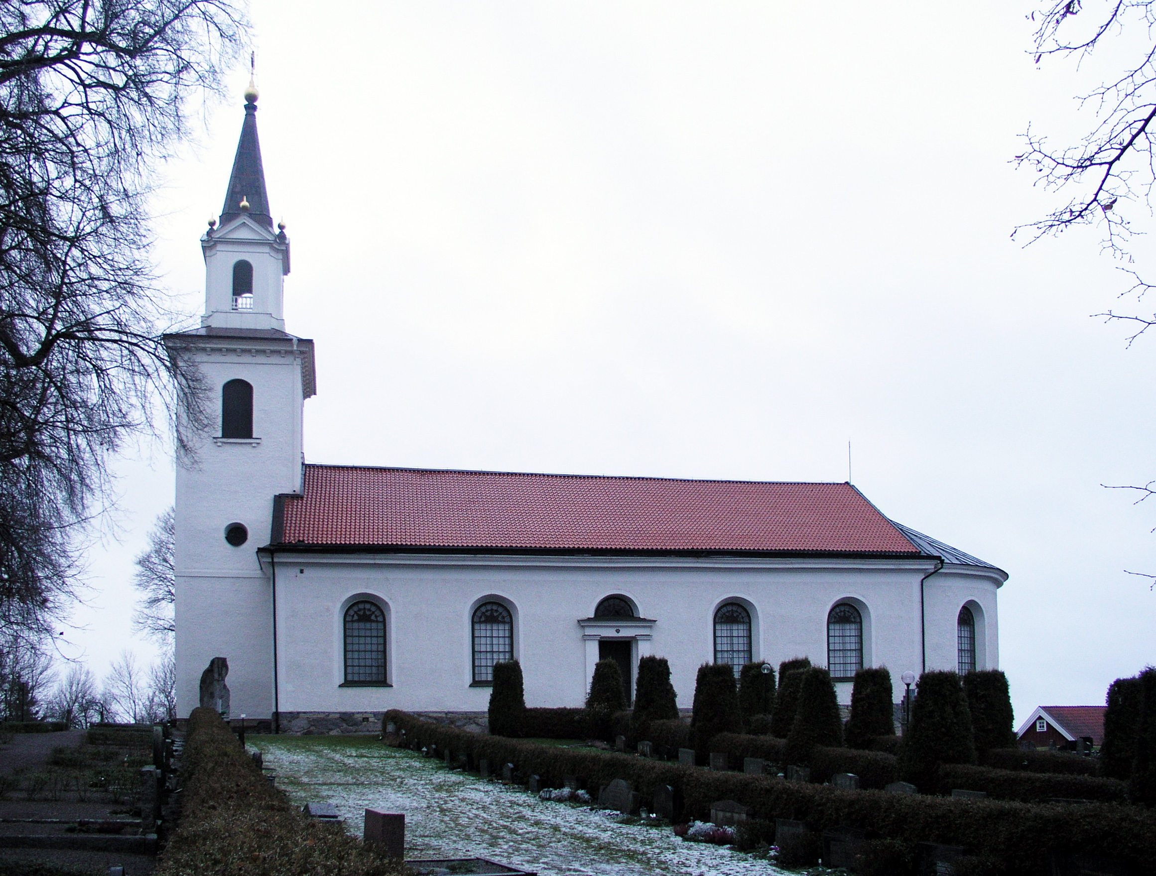 Törnevalla kyrka, Diocese of Linköping, Linköpings kommun. The picture was taken the 4th of December 2005 by Håkan Svensson (Xauxa).